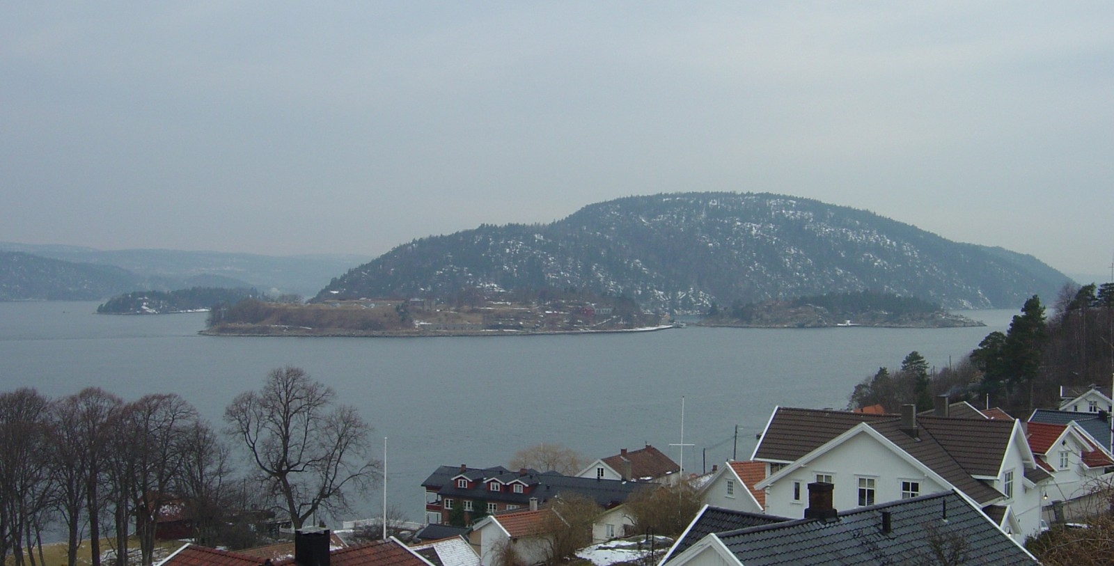 The Oscarsborg Fortress in the Oslofjord, 2005-03-24 Taken by myself - Ulf Larsen, in Drøbak - Norway, March 23, 2005. Camera: Sony DSC-P10 digital camera. Anyone that takes a better pic - or a pic she/he finds better is of course free to delete this one and place that one instead, as I am not a photographer... Ulflarsen 18:50, 23 Mar 2005 (UTC)